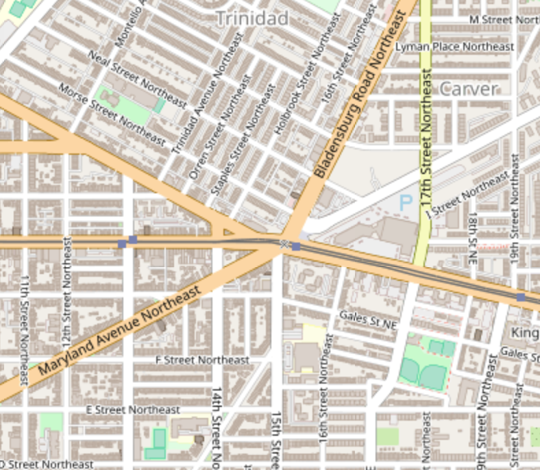 Starburst Intersection, Washington DC This map of Washington DC, USA was created from OpenStreetMap project data, collected by the community. This map may be incomplete, and may contain errors. Don't rely solely on it for navigation.